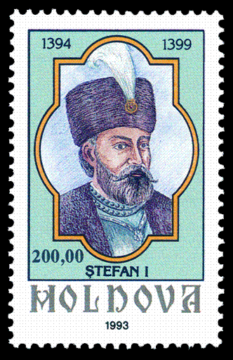 Stamp of Moldova